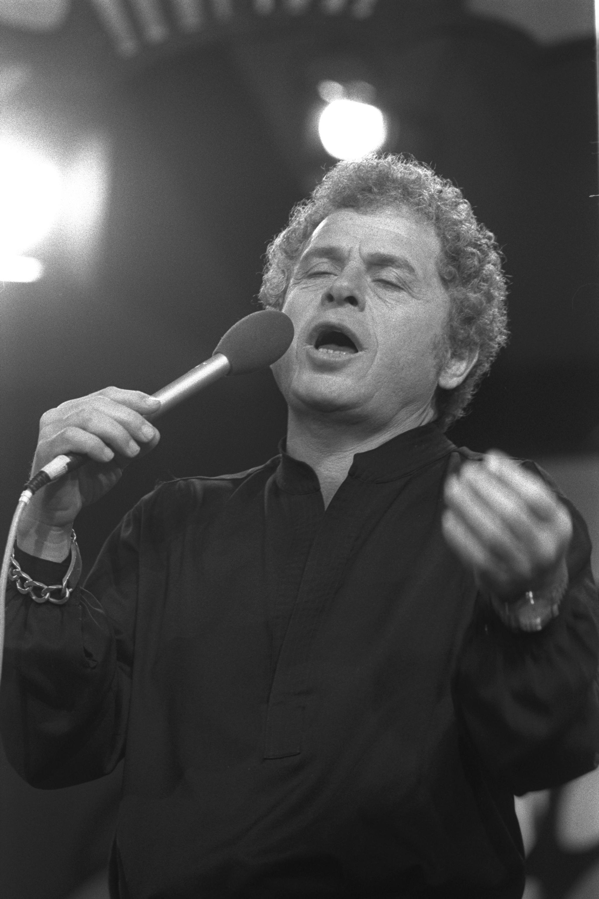 Singer Arik Lavi at the Teletrom Donations Evening held at the Mann Auditorium אריק לביא בהופעה בערב התרמה בתל אביב Photo: Yaakov Saar (1951–) Alternative names SA'AR YA'ACOV; Jacob Saar; Saʻar, YaʻaḳovDescriptionIsraeli photographerDate of birth 1951 Authority control : Q28751896 VIAF: 298161188 NLI: 001394176 creator QS:P170,Q28751896 , 04/13/1981